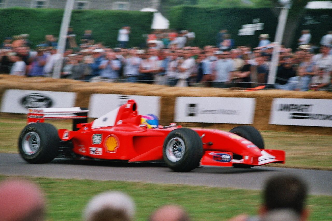 Ferrari F2001 Formula One car at the 2005 Goodwood Festival of Speed